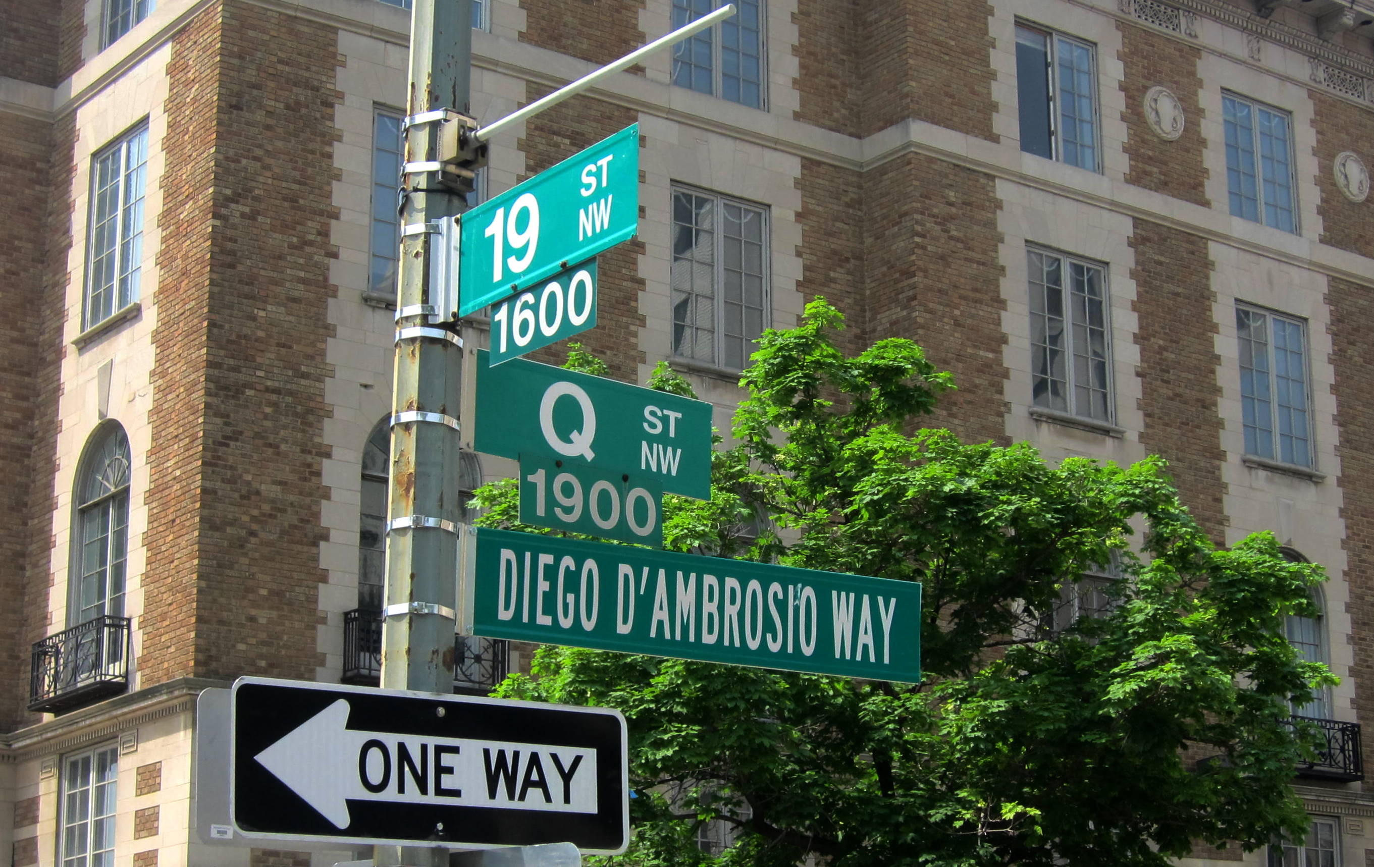 Street signs at the intersection of 19th and Q Streets, N.W., in the Dupont Circle neighborhood of Washington, D.C. The building visible in the background is The Anchorage. The 1900 block of Q Street, N.W., between Connecticut Avenue and 19th Street, was renamed in honor of Diego D'Ambrosio, owner of Diego's Hair Salon, located in The Moorings.